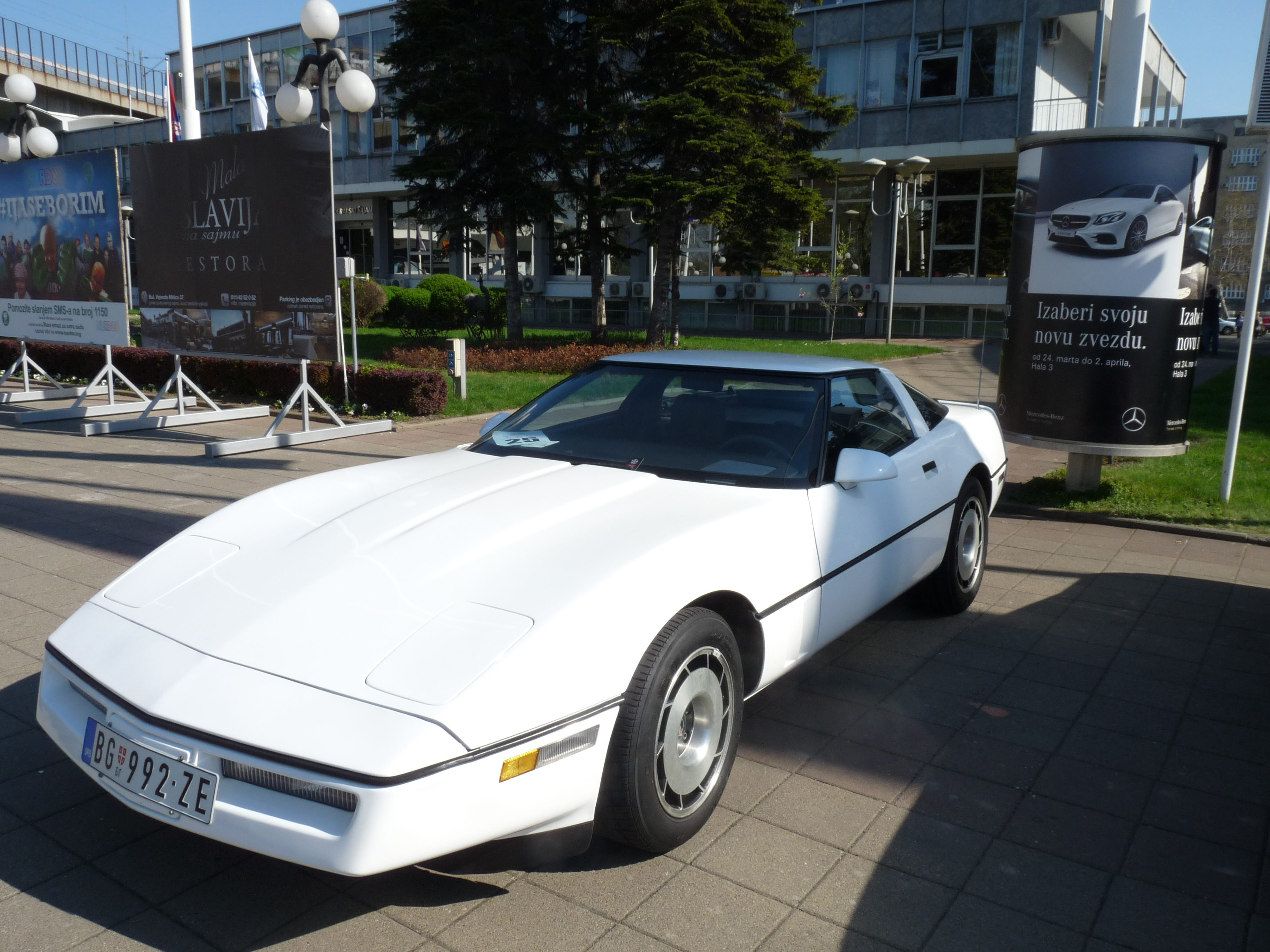 Chevrolet Corvette C4 at International Belgrade Automobile Fair 2017